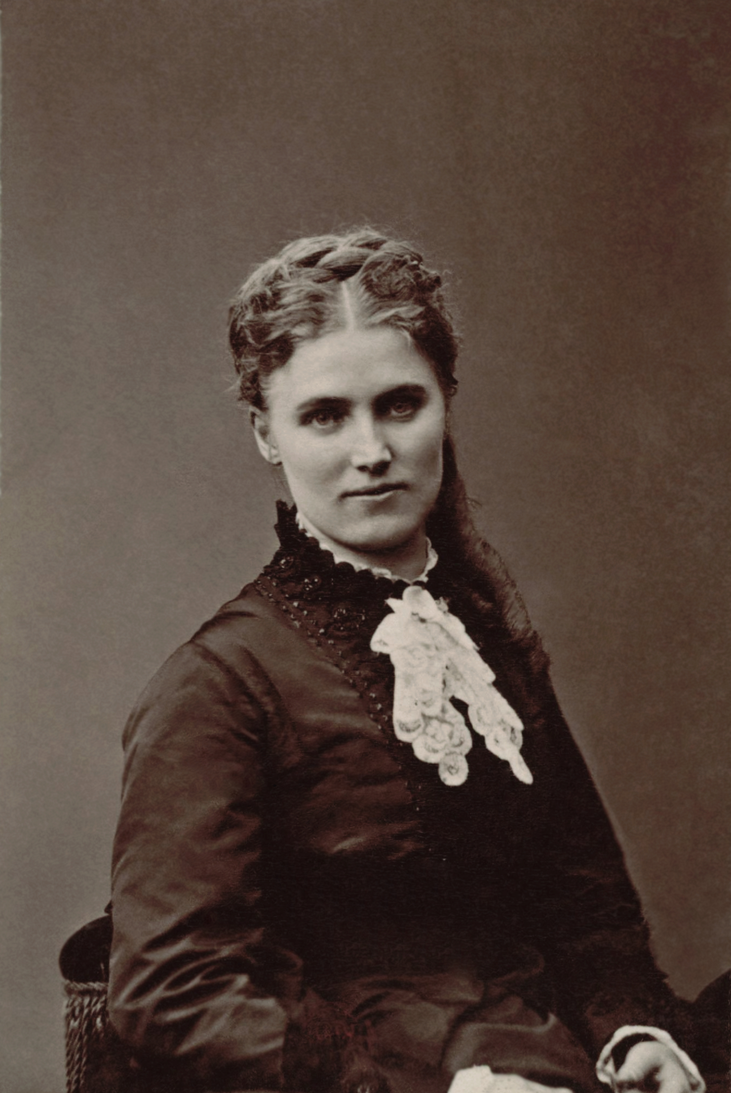 Christina Nilsson, countess de Casa Miranda, (1843 - 1921), swedish operatic soprano, by Nadar, 1870.